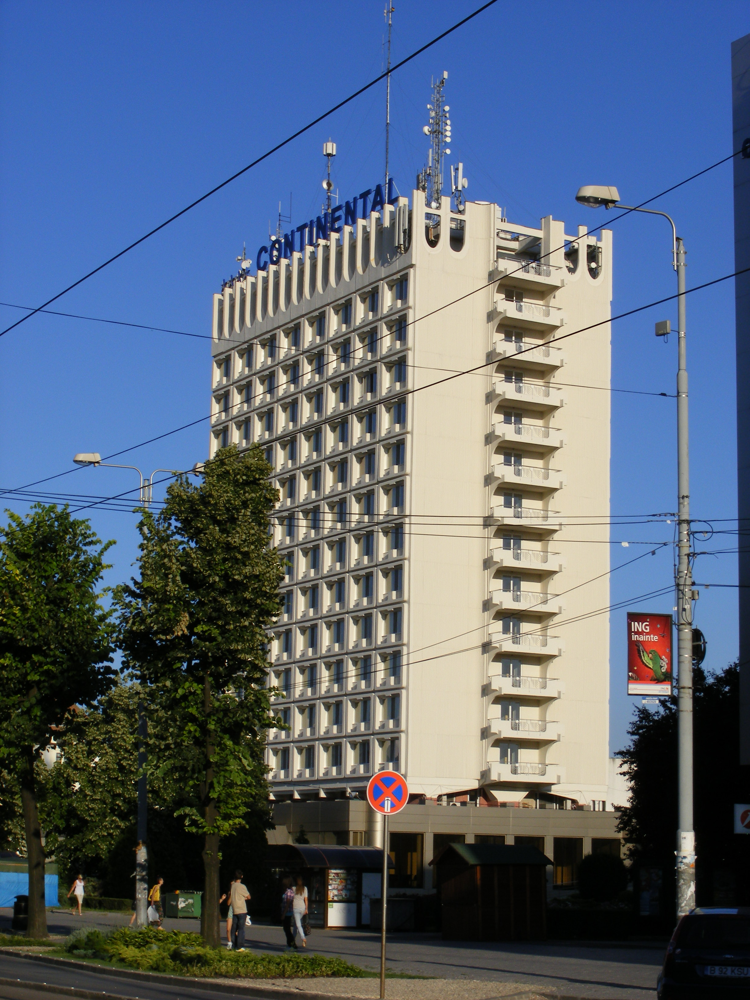 Hotel Continental in Timişoara, Romania